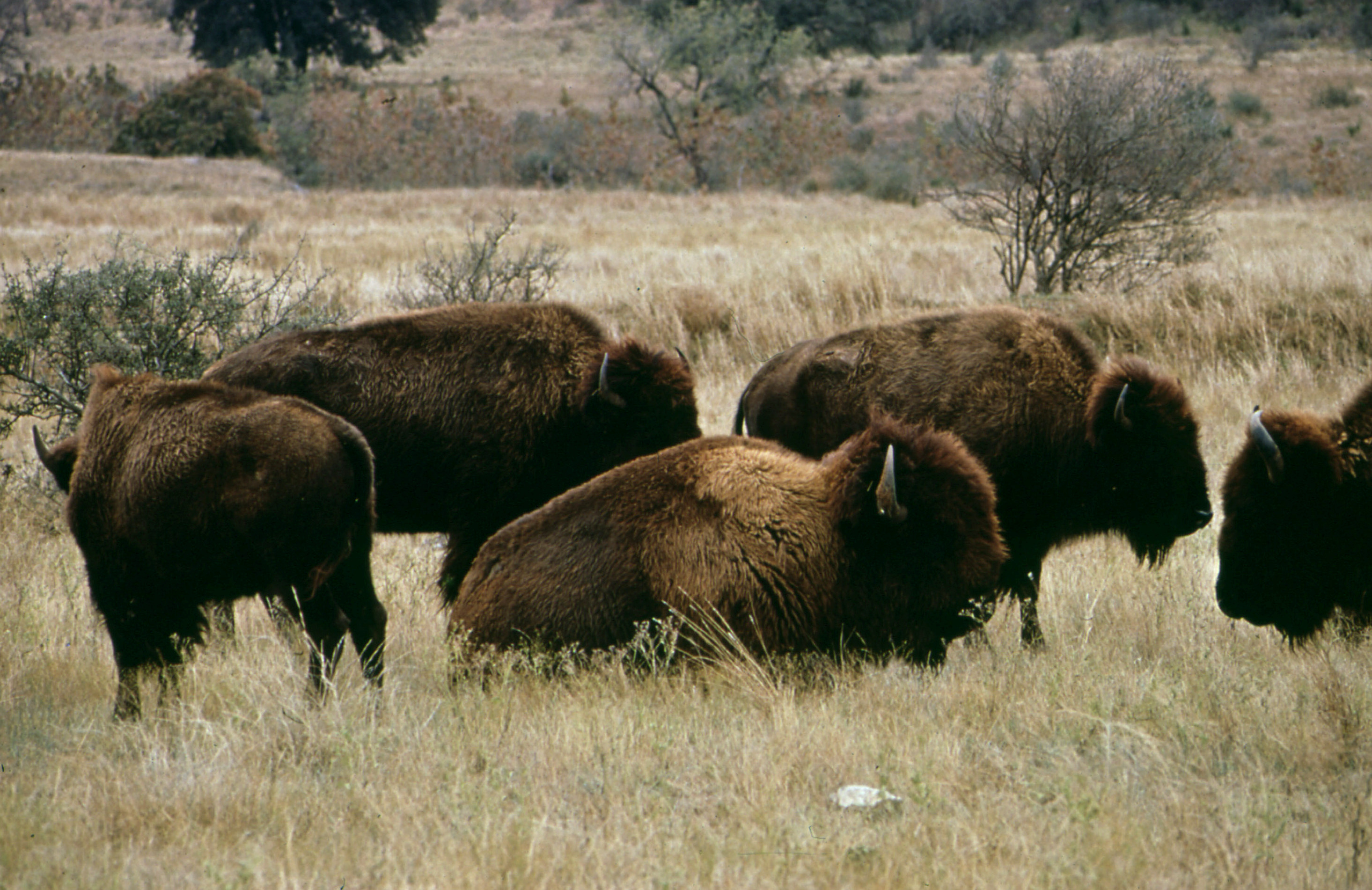 Original Caption: Buffalo Herd on Bell Ranch, in Leakey (Real county, Texas, United States) unhabited place. Image n.3612